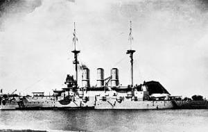 THE RUSSIAN REVOLUTION, 1905. NOVOSTI PRESS AGENCY. The Russian battleship, KNIAZ POTEMKIN TAVRITCHSKI, which was serving with the Black Sea Fleet when a serious mutiny broke out on board in June 1905. The mutiny, which evolved into active support for the unsuccessful Russian Revolution in Odessa and a naval confrontation with the Black Sea Fleet, is believed to have been triggered by the crew's refusal to eat meat unfit for consumption. The Potemkin Uprising had a significant influence on the revolutionizing process in the Russian army and fleet in 1917 and inspired Eisenstein's epic film of the same name. FURTHER INFORMATION: After the Revolution, the POTEMKIN was renamed PANTELEIMON. In April 1919, it was sunk in Sevastopol to prevent it from falling into Bolshevik hand.